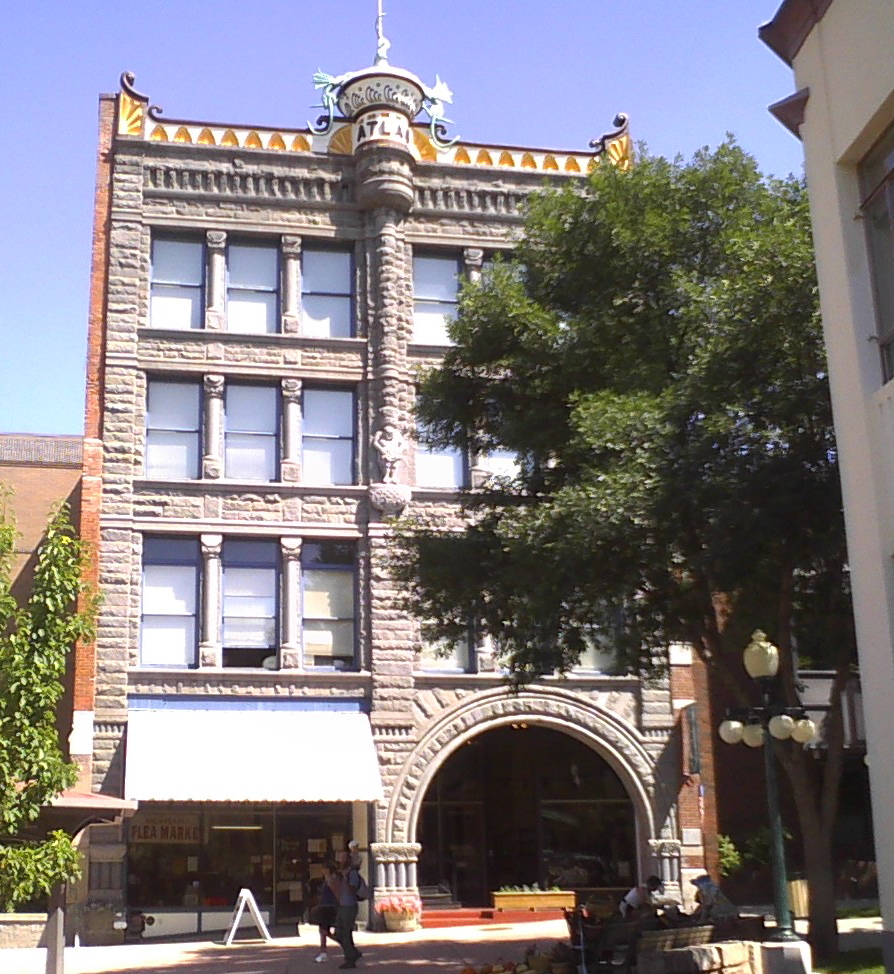 Atlas Block, Last Chance Gulch, downtown building part of Helena Historic District on National Register of Historic Places, Helena, Montana